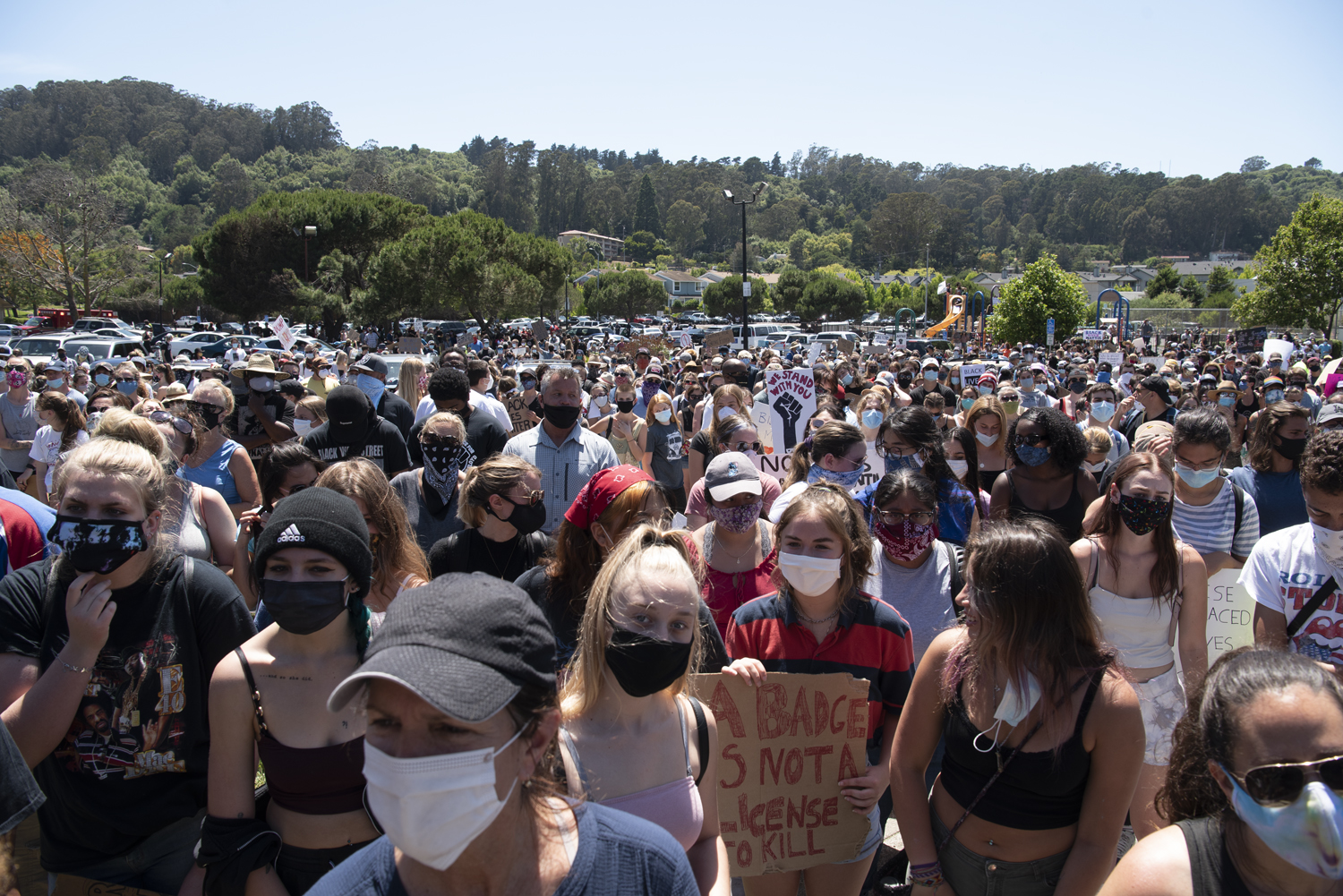 Marin City Black Lives Matter-George Floyd Protest "Its been too long that Marin county has had its knee on Marin City's neck" Marin County, California June 02, 2020 BlackLivesMatter GeorgeFloyd MarinCityProtest PoliceBrutality OurVoiceOurMovement